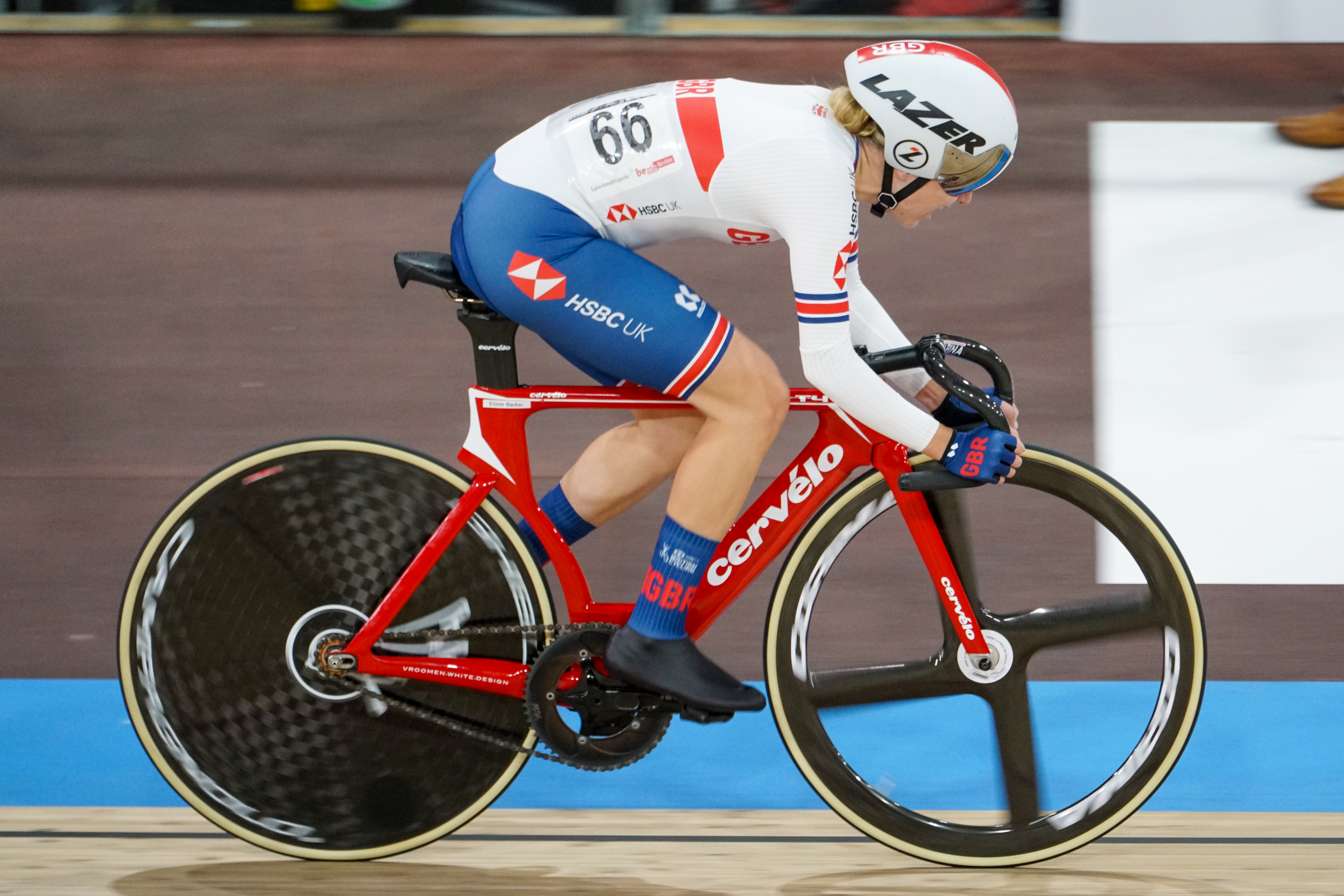 2020 UCI Track Cycling World Championships – Women's Points Race